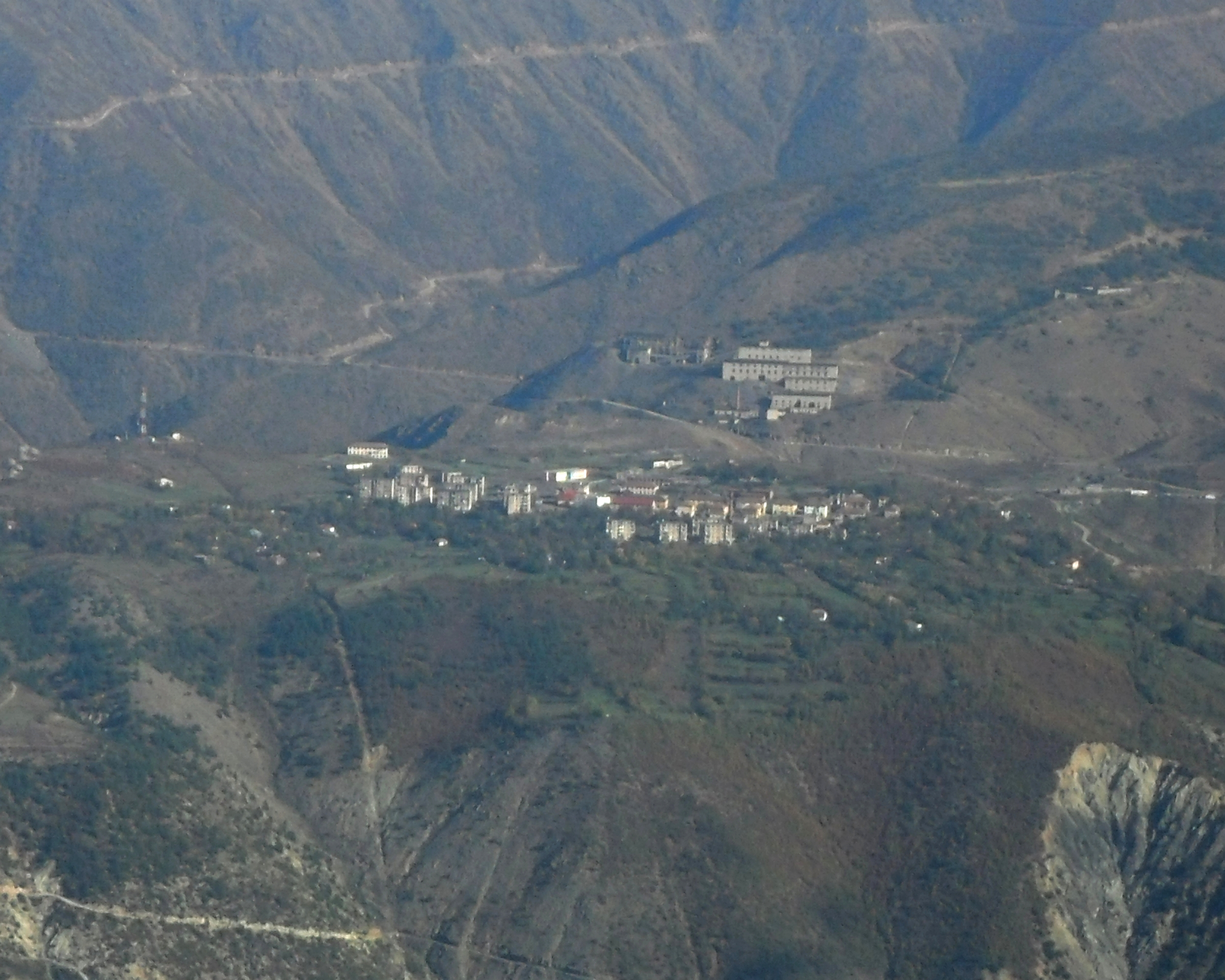 View of Krasta town from the summit of Noi i Madh (1848 m). The town lies 7.7 km far as the crow flies from the summit where the picture is taken.